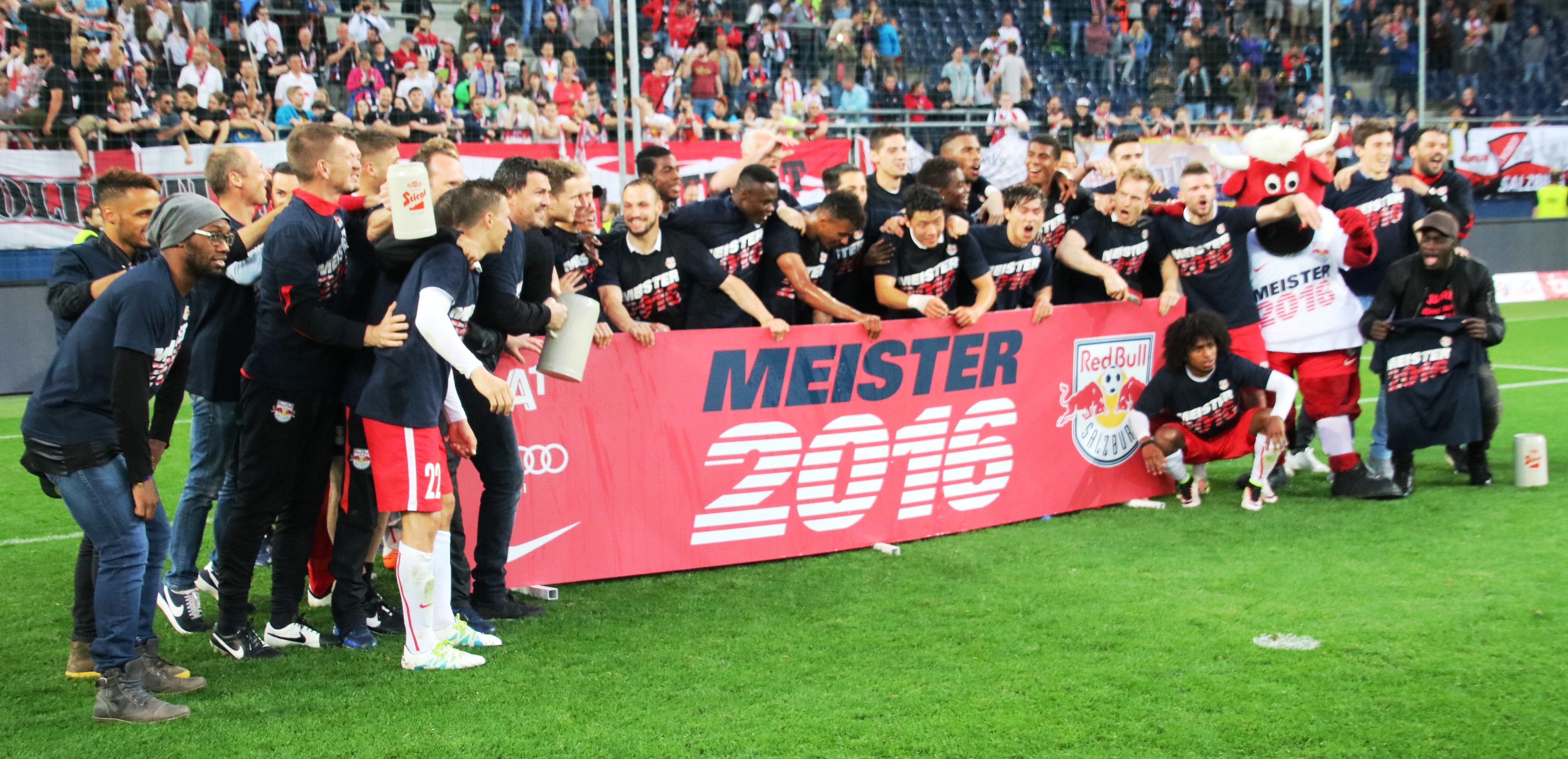 league match Bundesliga Austria 34th round